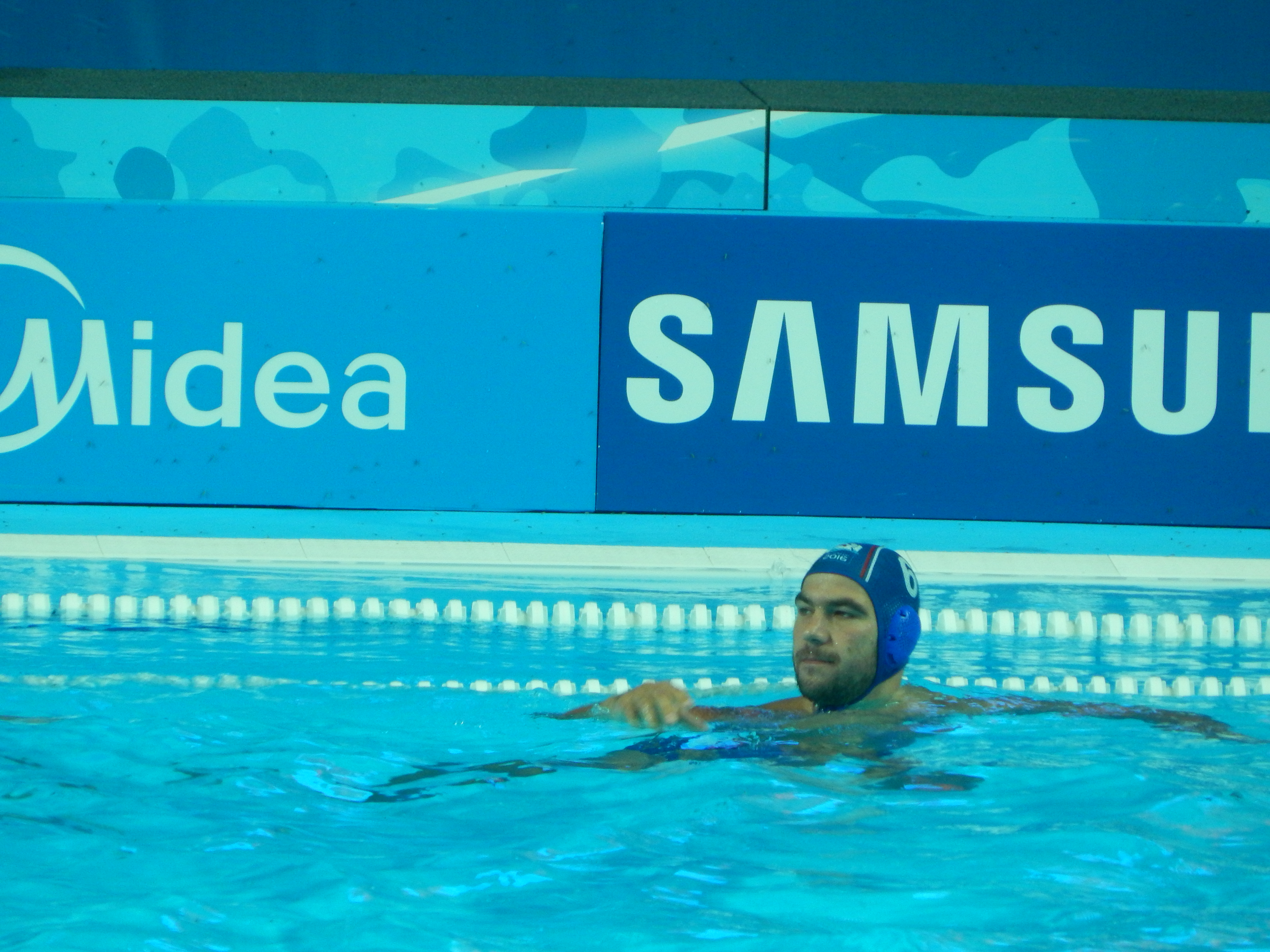 The gold medal match between Team Serbia and Team Croatia and the victory ceremony. All photos have been taken from the photographers sector. I was simply usual visitor but my ticket was to non-existent seats, therefore I was moved to that sector. All good photos I upload to WikiCommons for free use.